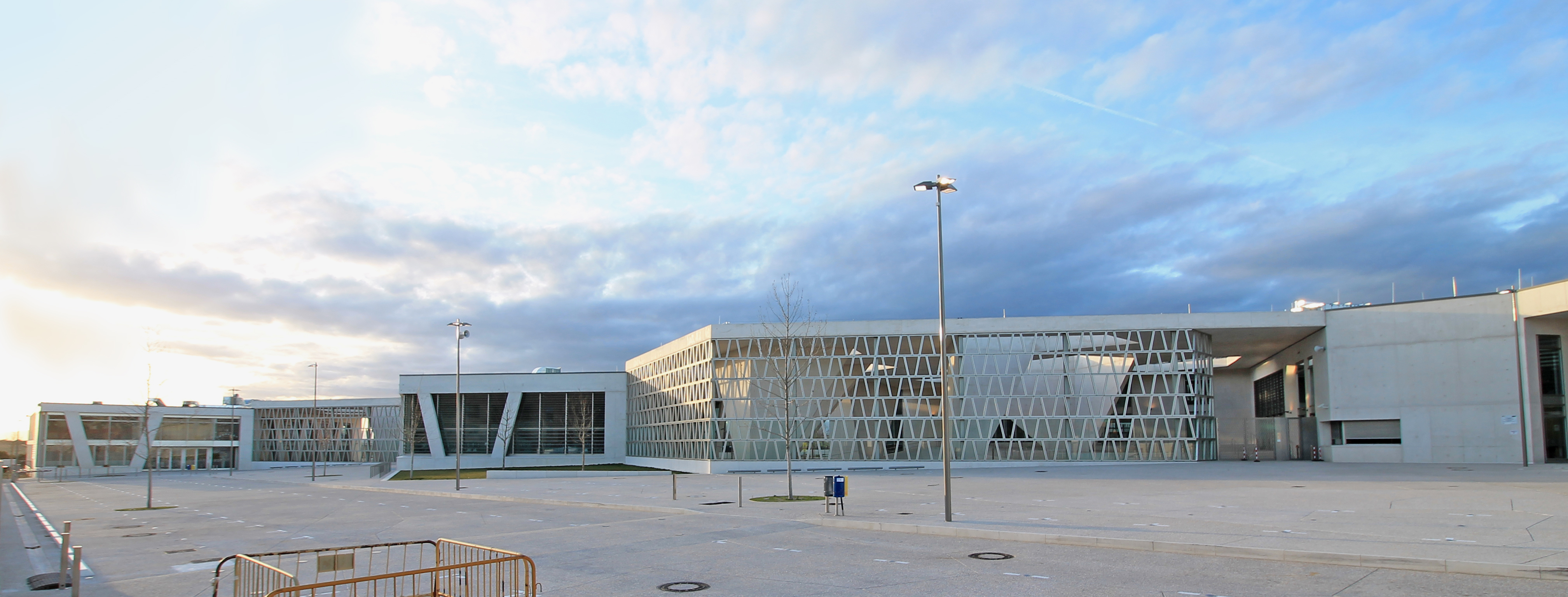 Façade of the German School in Madrid (Spain).